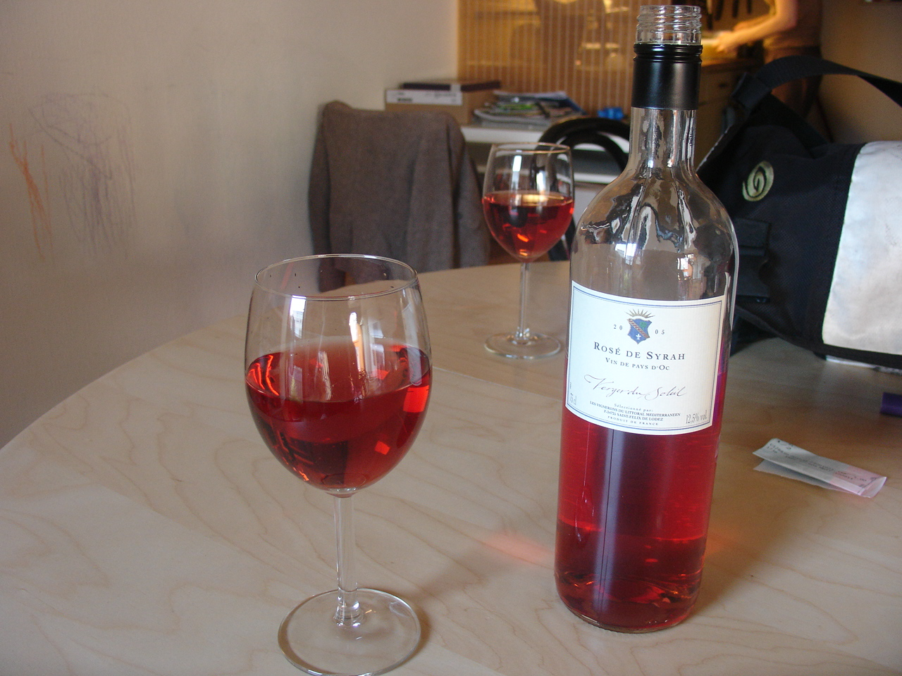 glass & bottle of Syrah rose